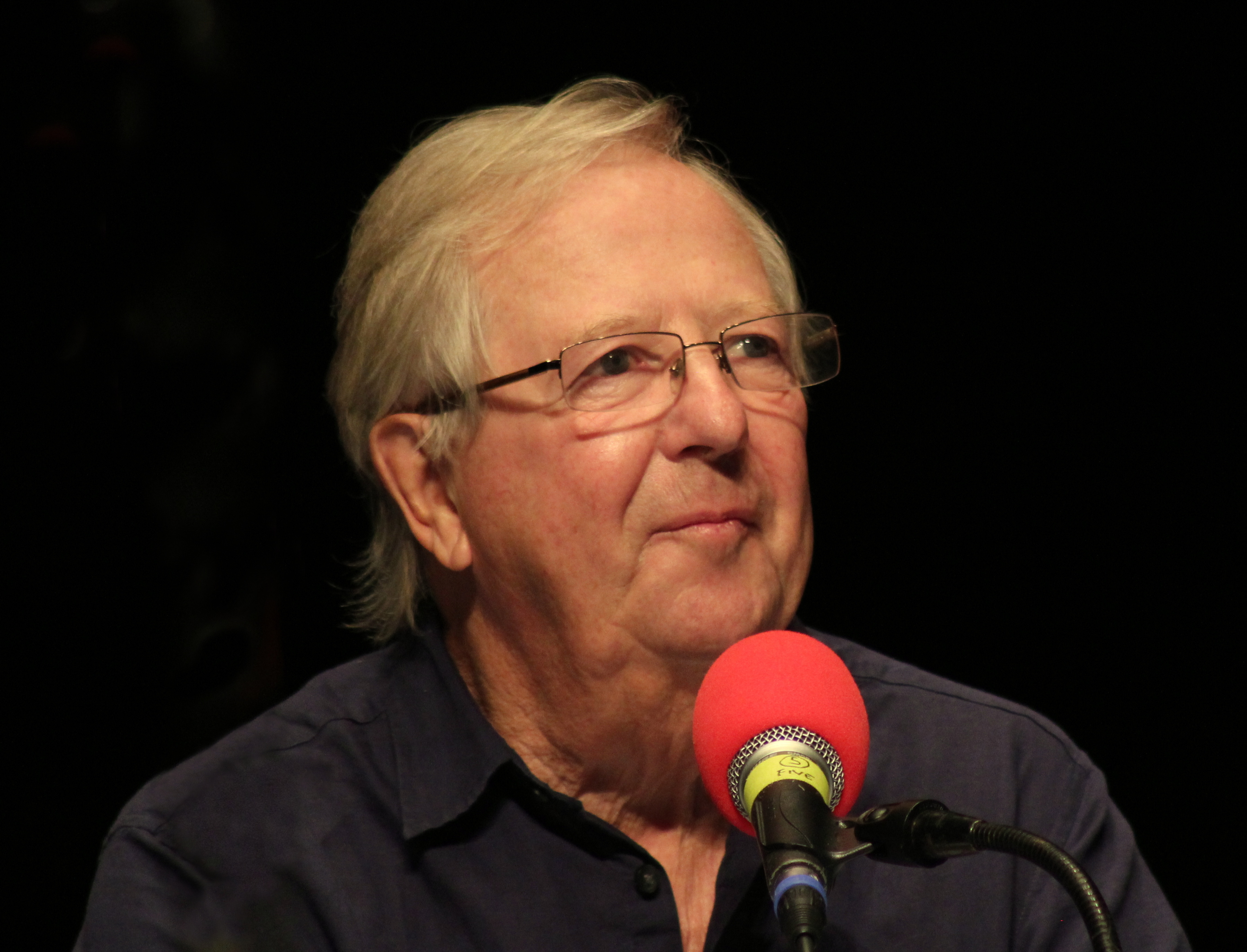 Tim Brooke-Taylor recording I'm Sorry I Haven't a Clue in Richmond Theatre, November 2014.